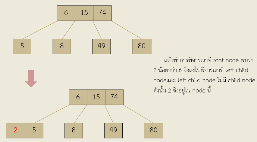 ทำการพิจารณาที่ root node พบว่า 2 น้อยกว่า 6 จึงลงไปพิจารณาที่ left child nodeและ left child node ไม่มี child nodeดังนั้น 2 จึงอยู่ใน node นี้